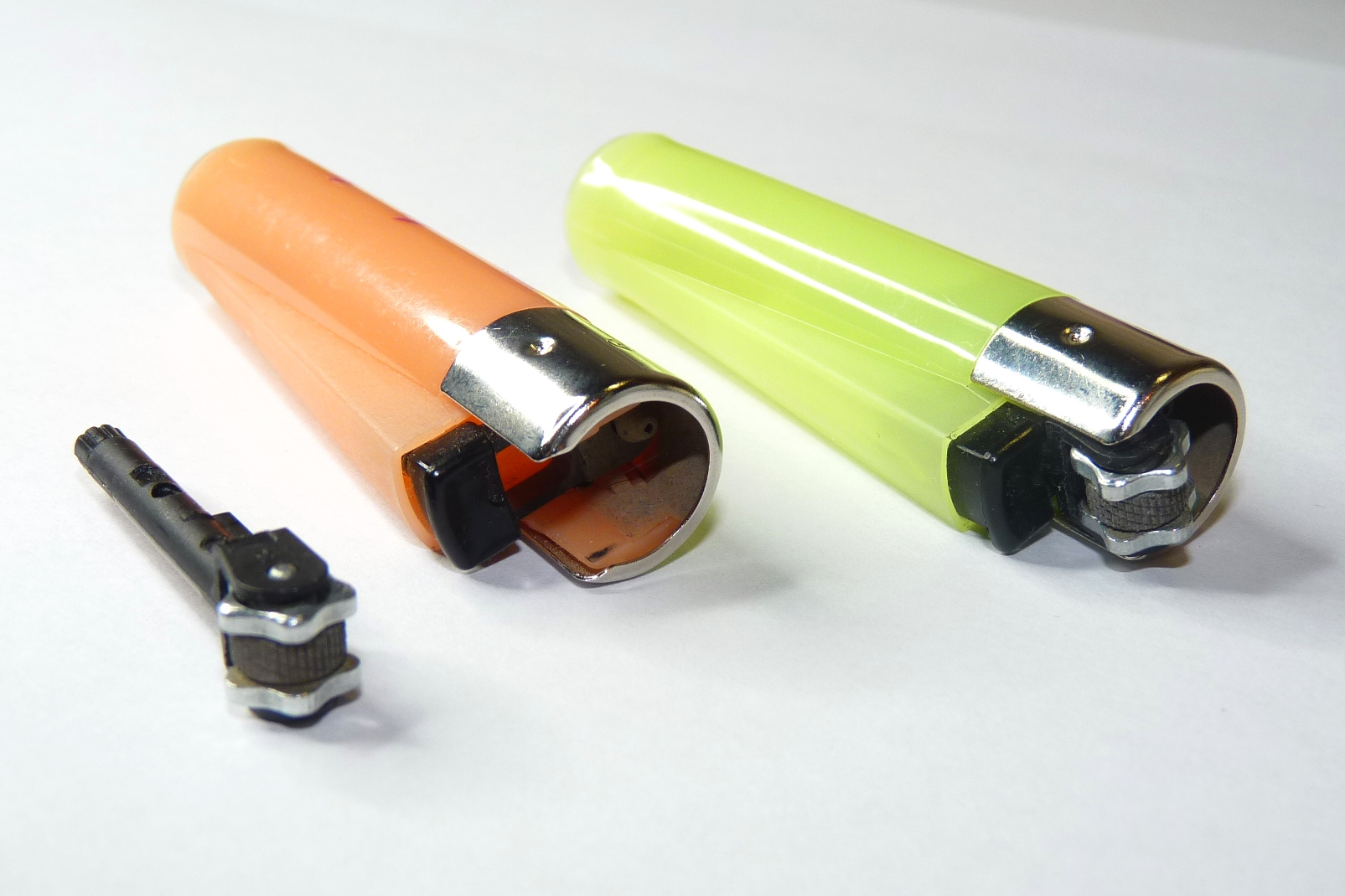 A pair of small Clipper lighters. In the orange one the flint system has been removed (bottom left).